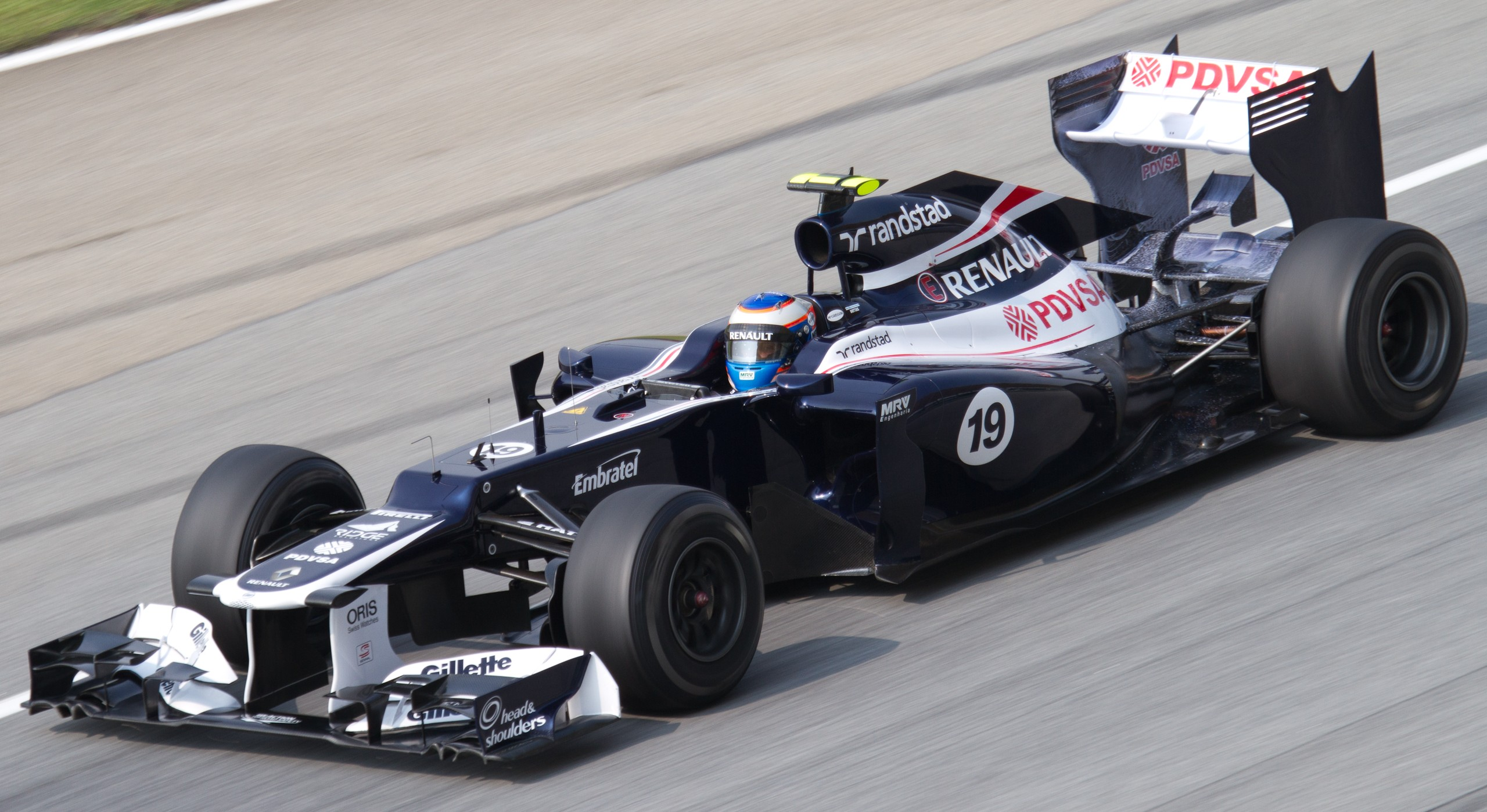 Formula One 2012 Rd.2 Malaysian GP: Valtteri Bottas (Williams) during the first practice session on Friday.